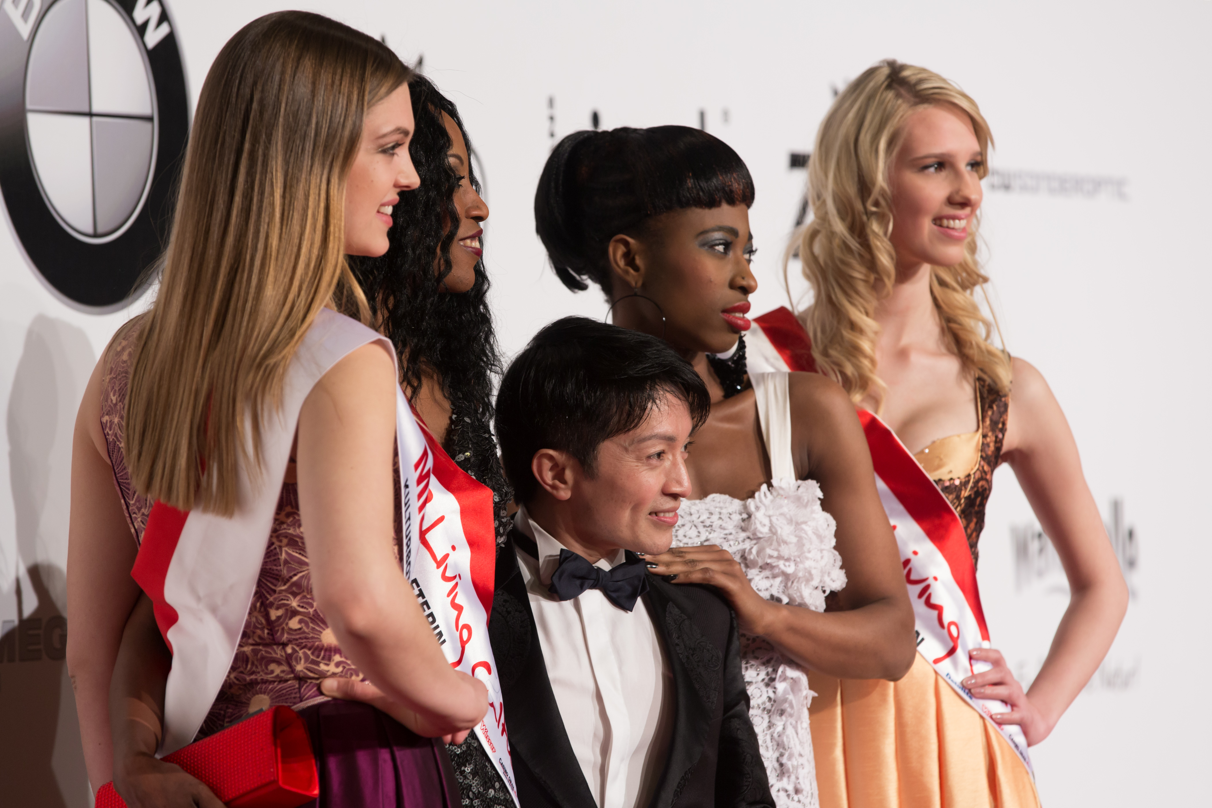 Lena Sophie Brauchart, Pauline Riesel-Soumaré, La Hong Nhut, Beverly Oyario and Jennifer Hellinger on the red carpet of the Filmball Vienna at Rathaus, Vienna, Austria.